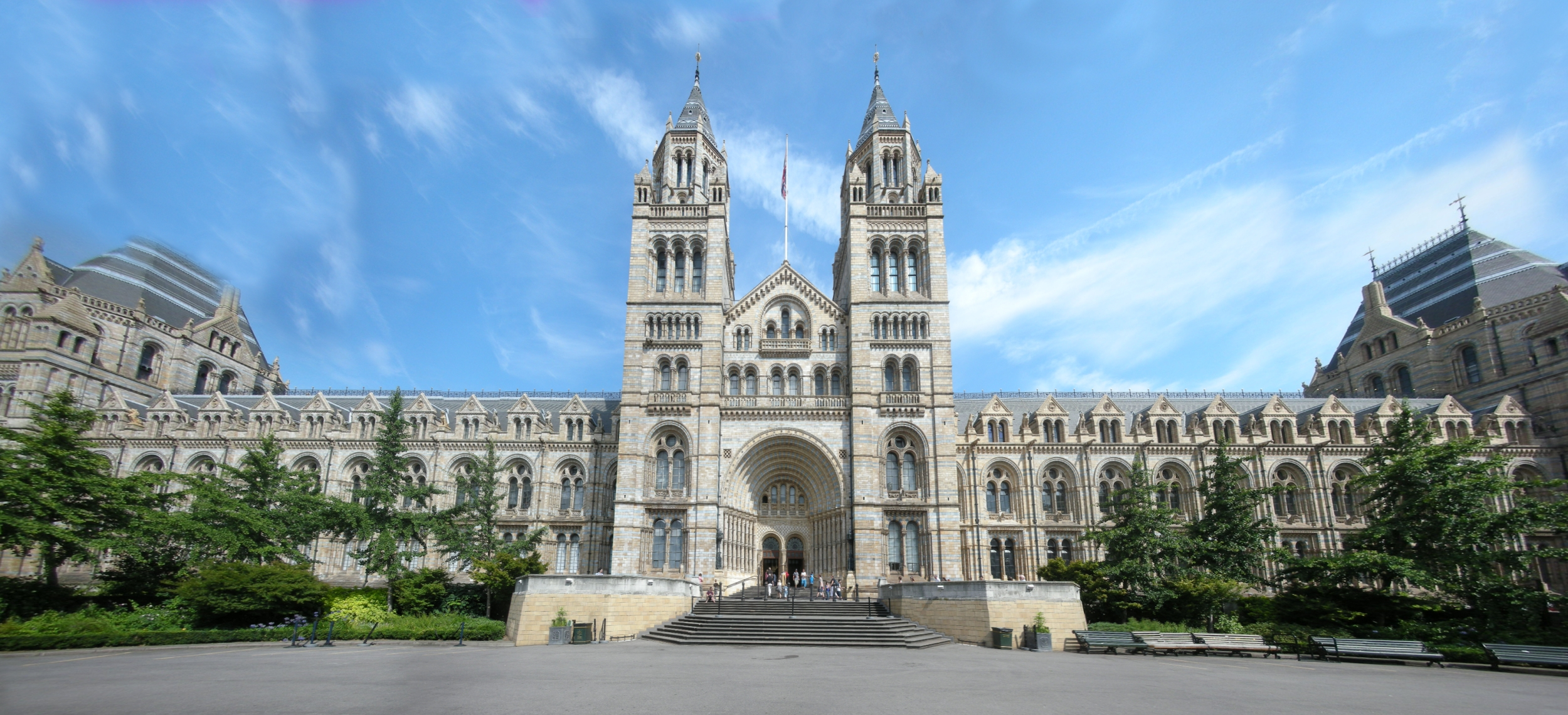 Front view of the Natural History Museum in London, UK. This panorama image was composed of 12 individual images and stiched using the nona engine with Hugin. Some of the sky was recreated during post processing with The Gimp to create a rectanglar image.